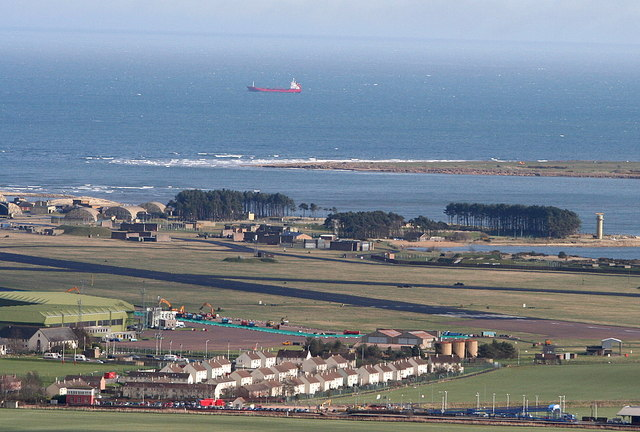 Leuchars airbase